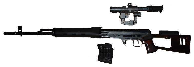 Dragunov sniper rifle with scope and magazine removed